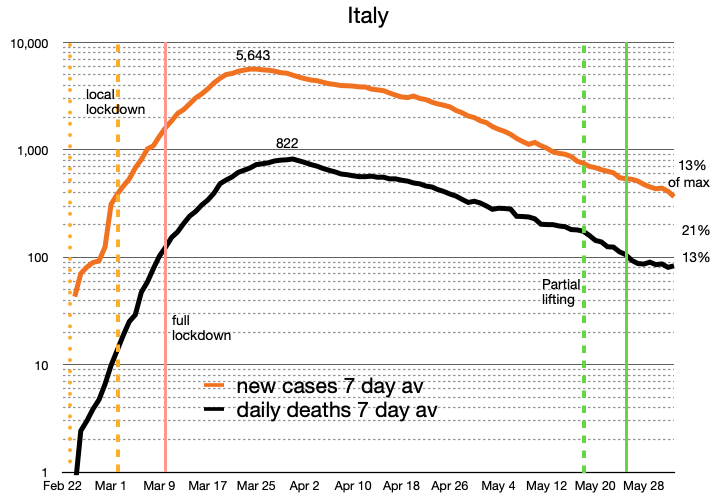 The 7 day average of the number of cases and deaths is shown on a logarithmic scale. The dates of the progressive imposition of a lockdown are shown together with the first two stages of the lifting of those.